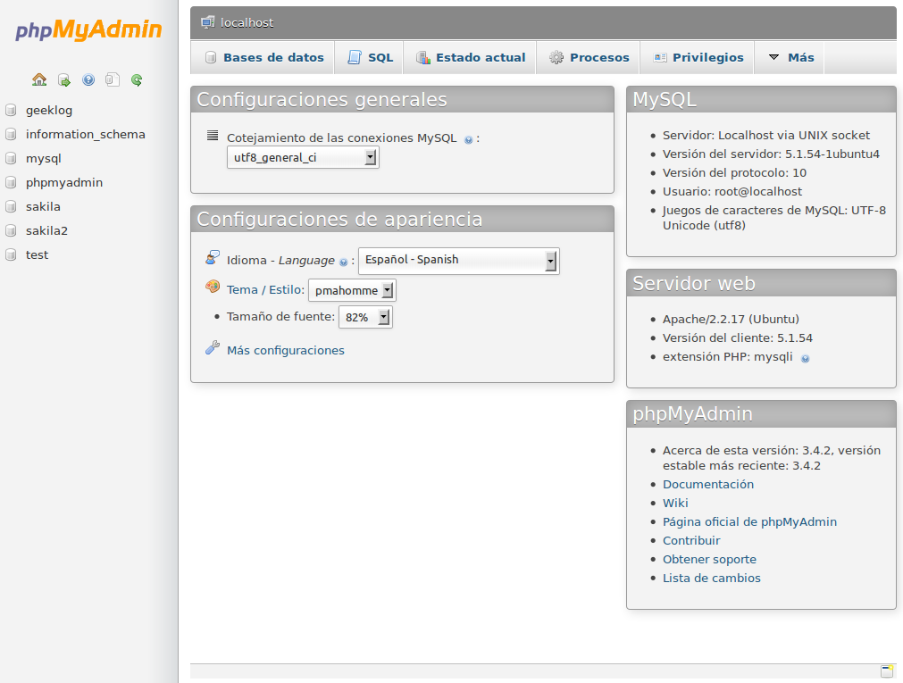 Screenshot of the main page of phpMyAdmin version 3.4.2